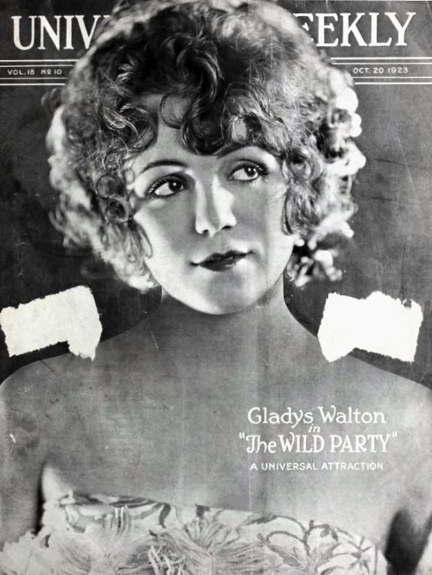 Still from the American drama film The Wild Party (1923) with Gladys Walton, on the cover of the October 20, 1923 Universal Weekly.